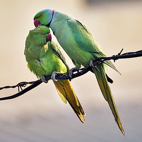 Rose-ringed Parakeet Psittacula krameri at/ near Hodal in Faridabad District of Haryana, India.